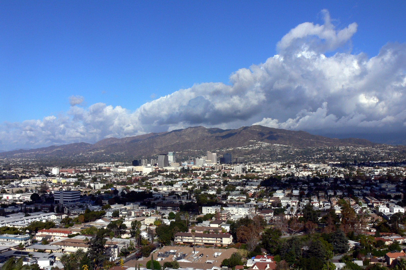 View of the Verdugo Mountains — as seen from the Church of the Recessional at Glendale Forest Lawn Memorial Park. The city of Glendale is in the foreground, including downtown Glendale in the center. Photograph by Mike Dillon, December 27, 2006.